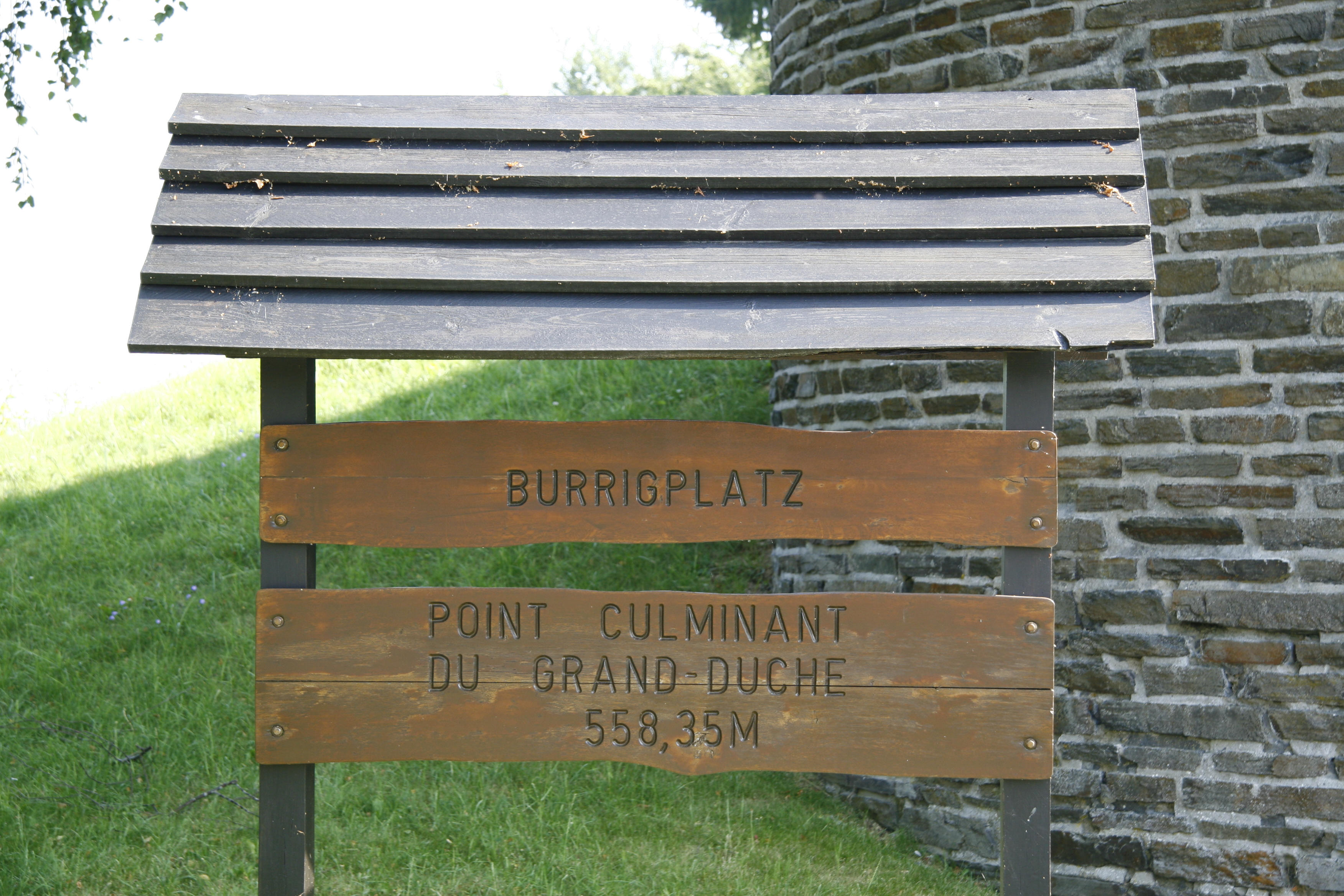 Pannel below the water tower at Burgplatz / Huldange, Luxembourg. Second highest point in the country.